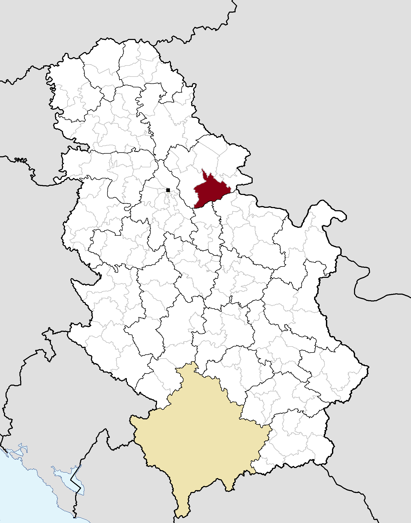 Municipal location in Serbia